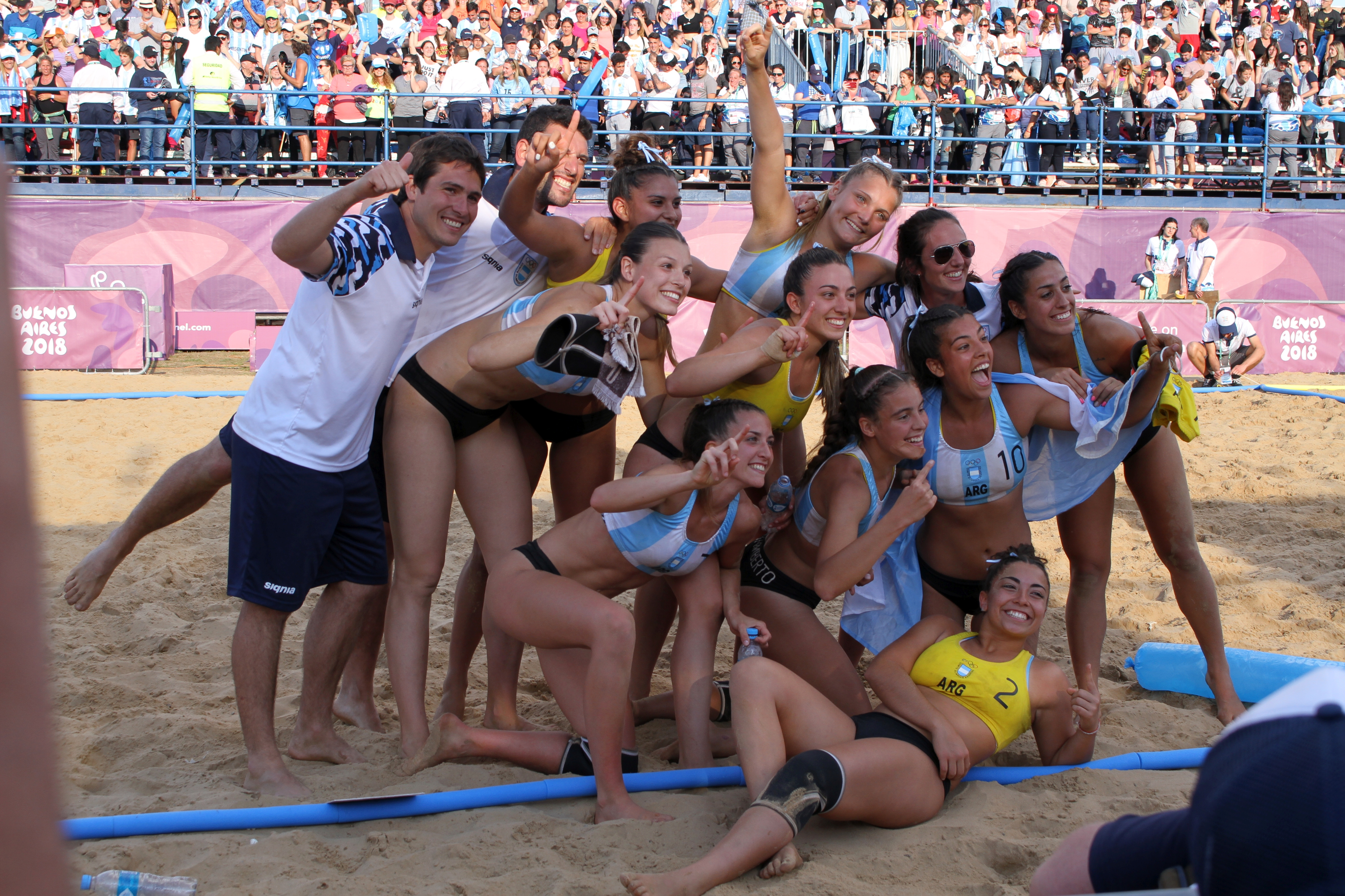 Beach handball at the 2018 Summer Youth Olympics in Buenos Aires at 13 October 2018 – Girls Gold Medal Match – Argentina-Croatia 2:0